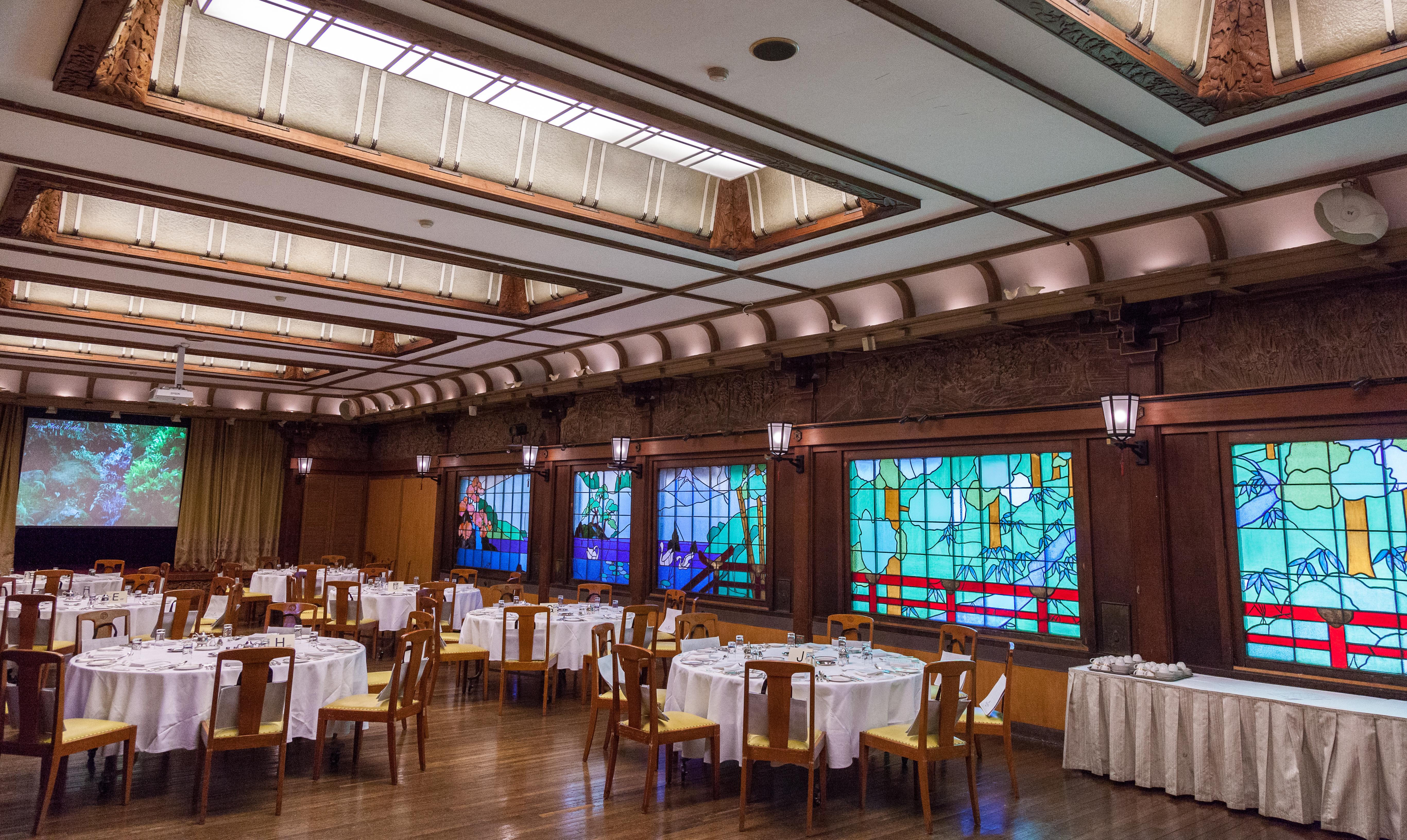 The main dining room, Fujiya Hotel, Miyanoshita, Hakone